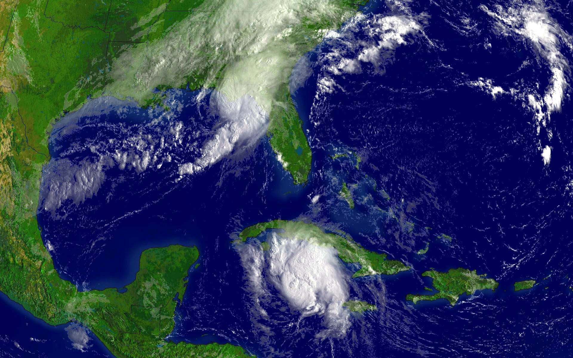 Satellite pic of Tropical Storm Bonnie and Hurricane Charley on August 12, 2004 at 13:15 UTC.